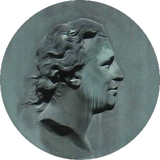 Elias Martin (1739-1818), swedish artist. From Martin's gravestone.